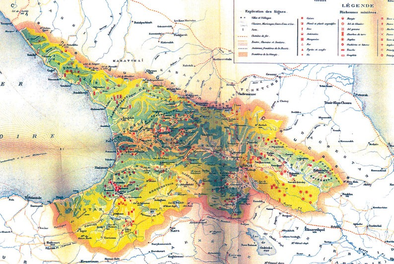 Carte de la Georgie, 1920